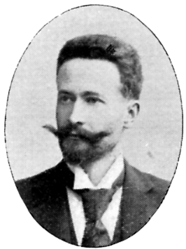 Image scanned from the book "Svenskt Porträttgalleri XX - Arkitekter, Bildhuggare, Målare m.fl. " ("Swedish Portrait Gallery XX - Architects, Sculptors, Painters, ") published 1901